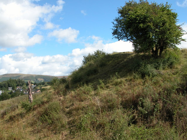 Site of Builth Wells Castle. No masonry remains from this once large castle, built in the 13th century along with the large castles of north Wales by Edward I.